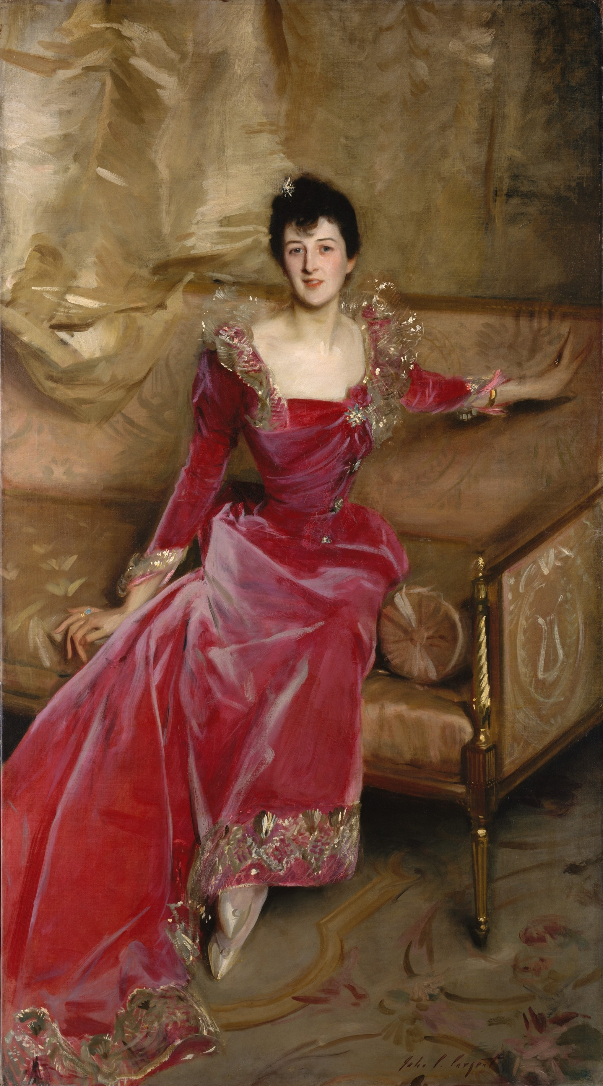 Mary Frances Hammersley (née Grant), wife of Hugh Hammersley